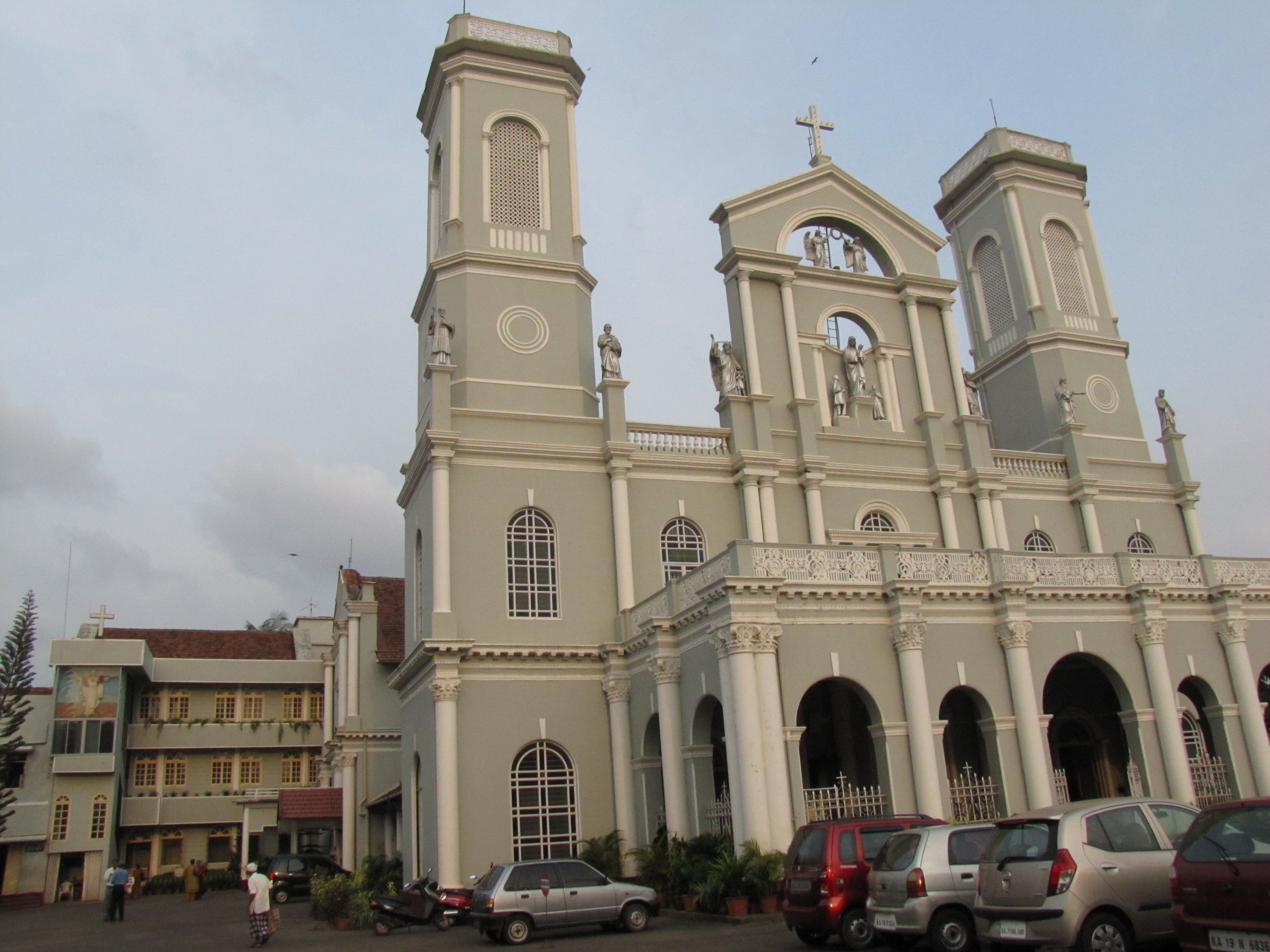 Milagres Church (Church of Our Lady of Miracles) in Hampankatta, Mangalore